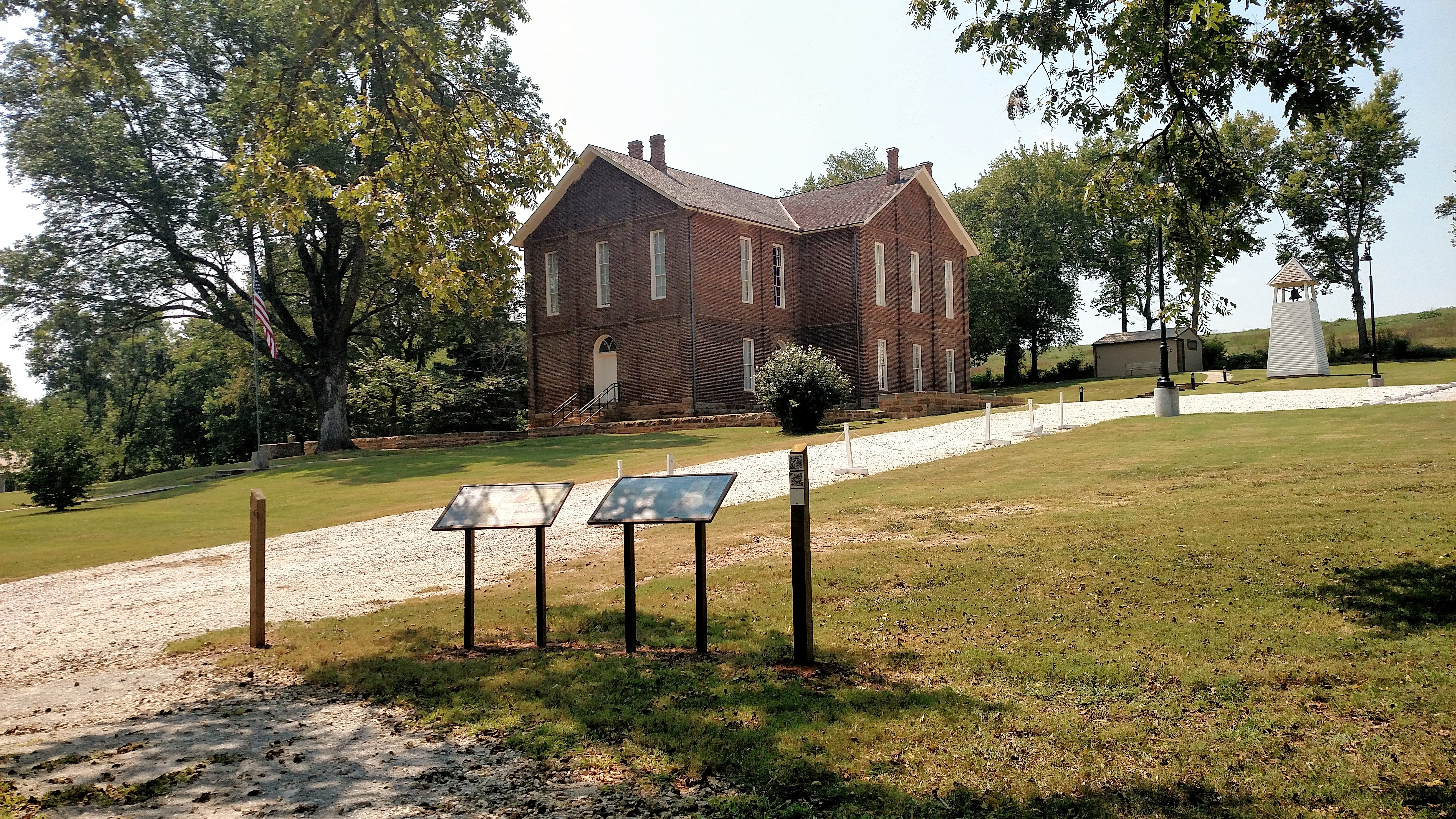 Campus of Cane Hill College in Canehill College